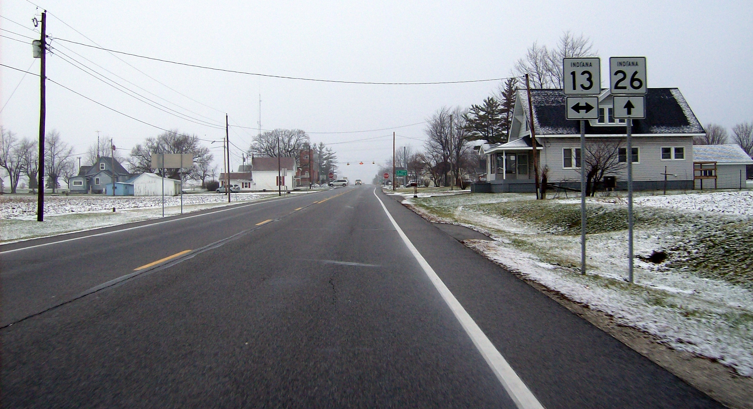 Along westbound State Road 26, approaching the intersection of State Road 13 in Point Isabel, an unincorporated community in central Green Township, Grant County, Indiana, United States.